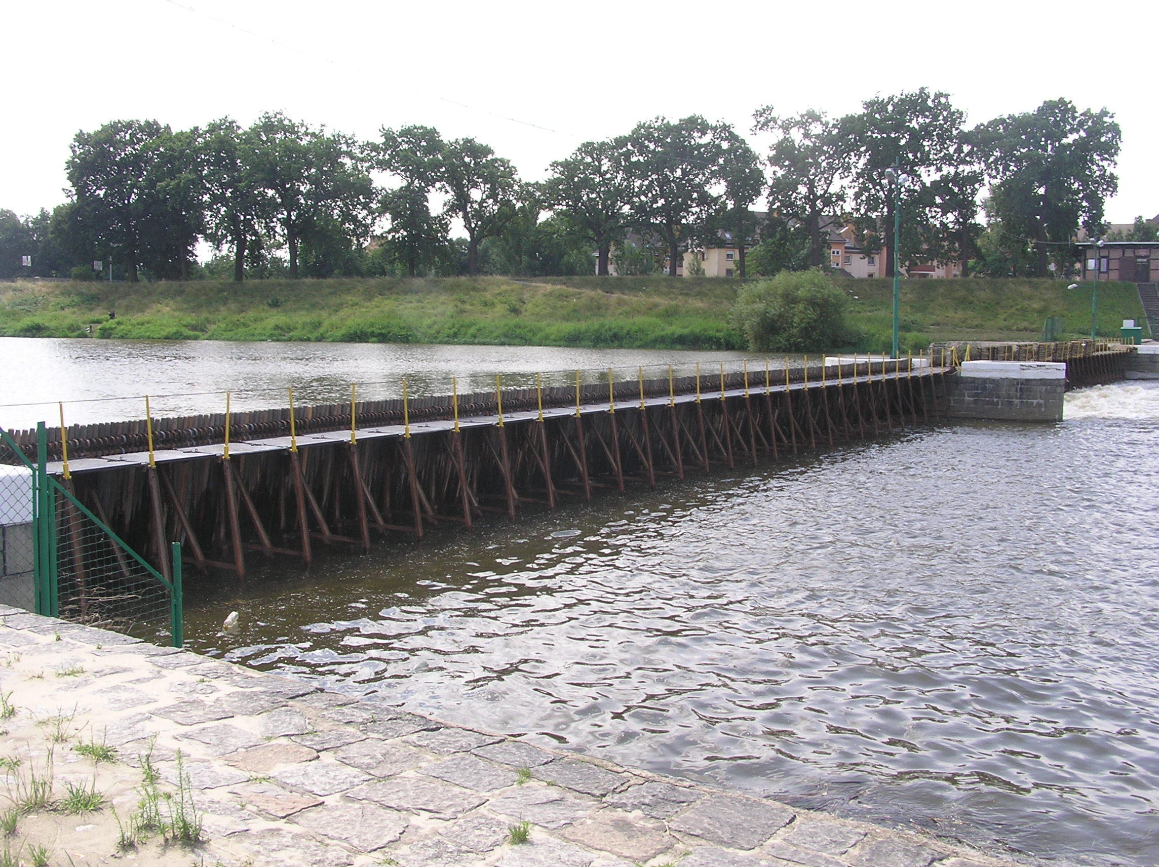 Wrocław, Psie Pole Weir